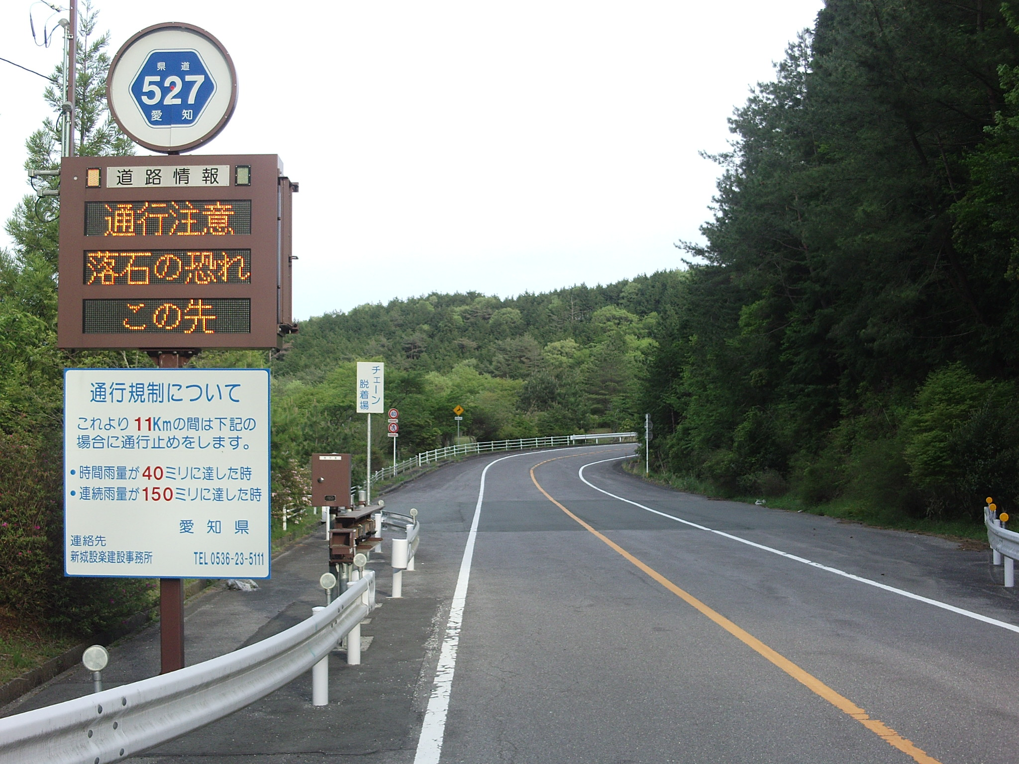 Aichi prefectural road No.527 in Tsukudeshiratori, Shinshiro, Aichi.